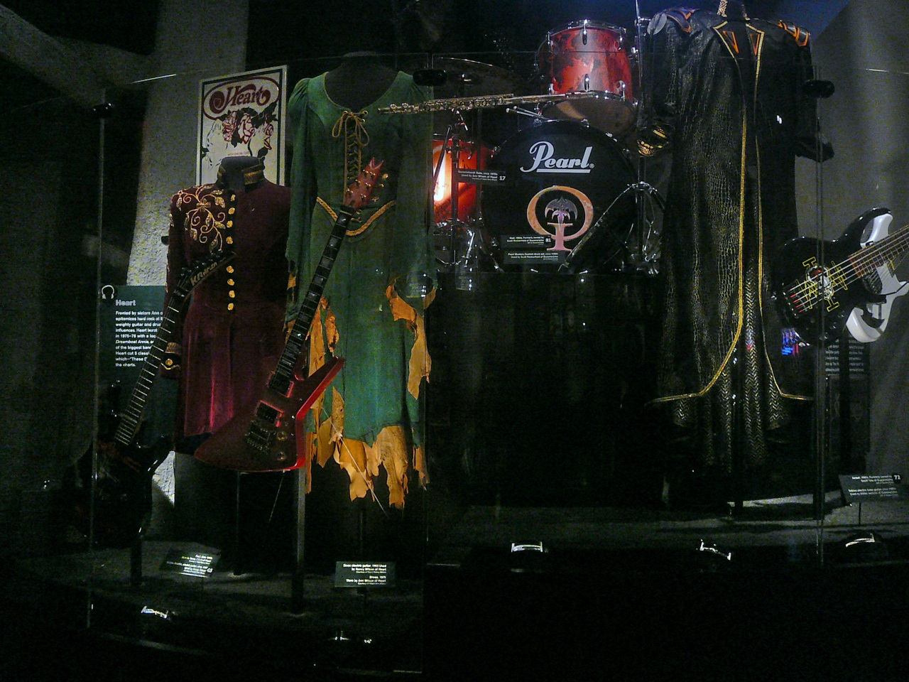 Heart memorabilia at the Experience Music Project.